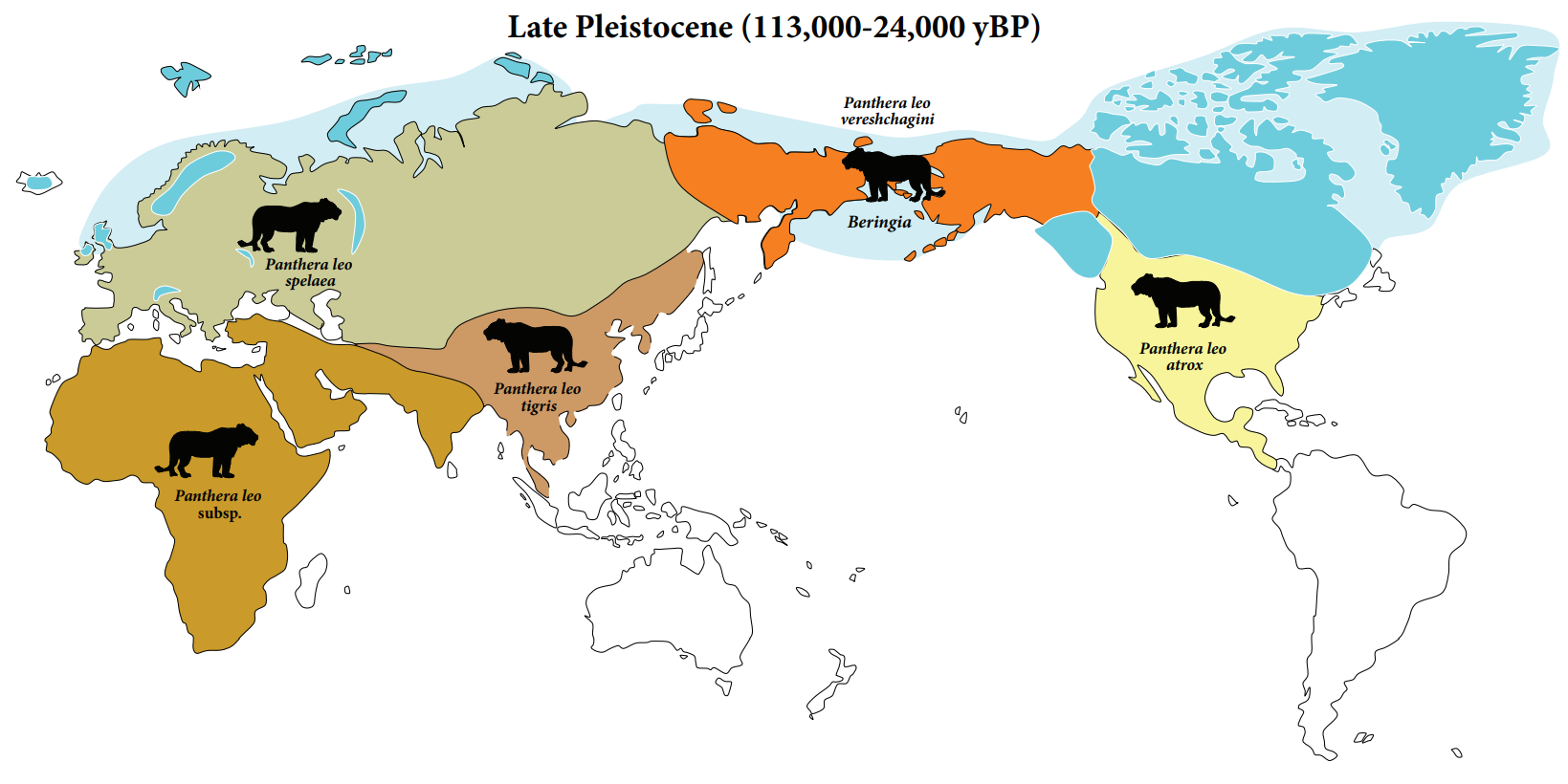 Global Pleistocene range of Panthera leo